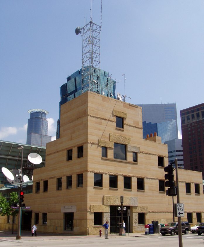 The WCCO building in downtown Minneapolis, 2006